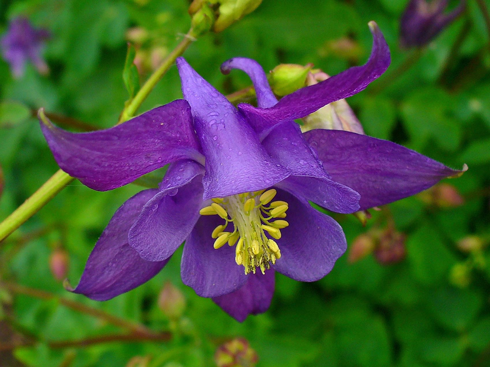 Aquilegia vulgaris, Ranunculaceae, European Columbine, Common Columbine, Granny's Nightcap, flower. Stutensee, Germany.